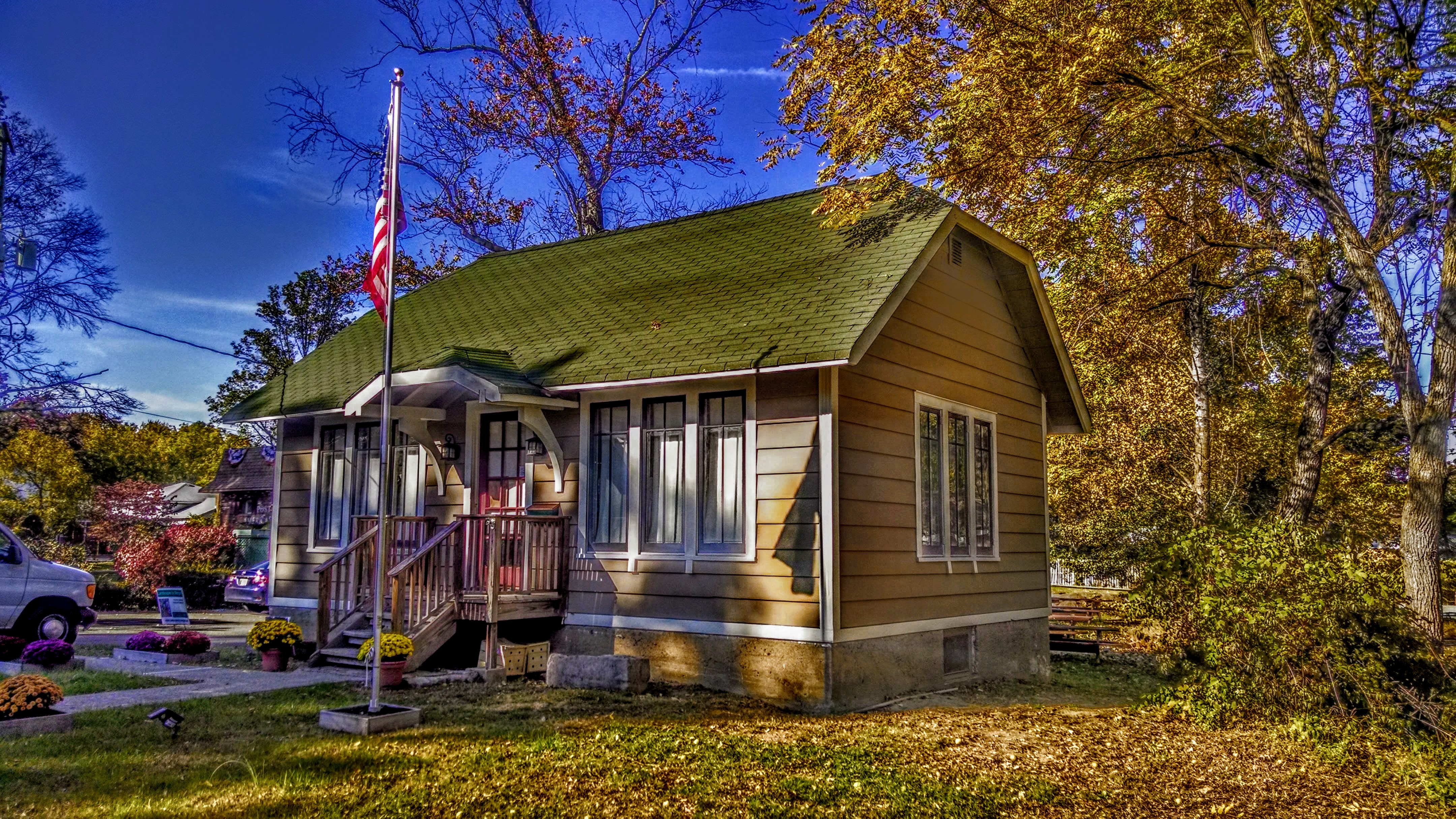 The Lincoln Park History Museum in Lincoln Park, New Jersey viewed from U.S. Route 202.